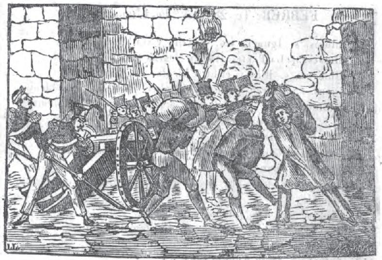 Image from the book Pronostich catala historic, geografic, astronomic, instructiu y religios per lo any 1847. Entrance of Lord Wellington into Ciudad Rodrigo on January 20th, 1812.